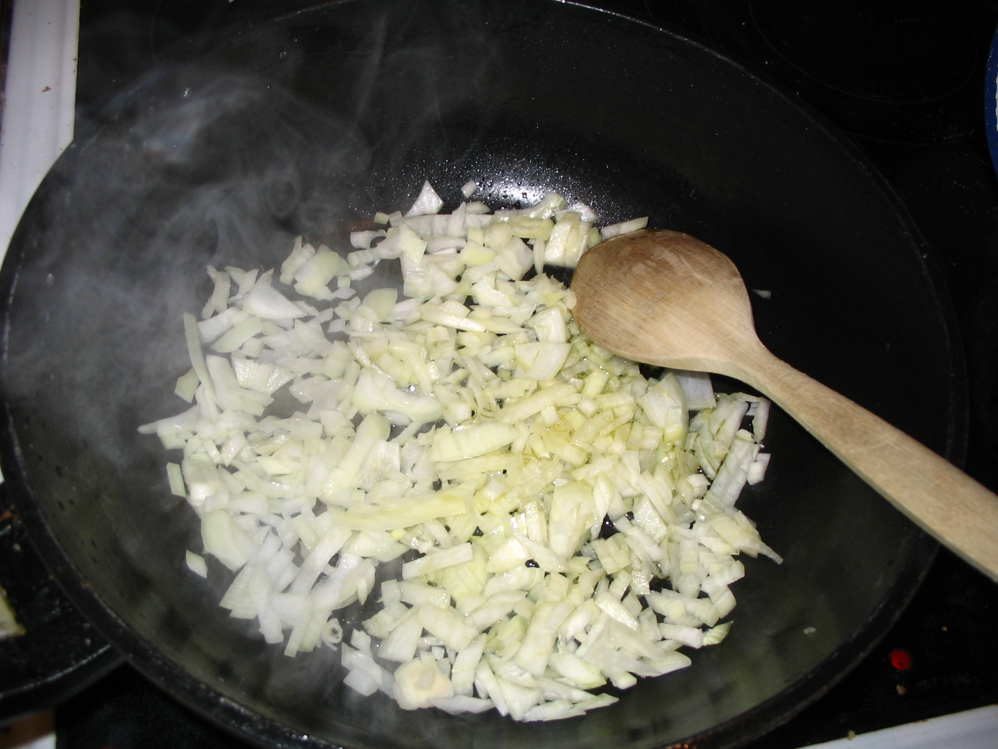 Frying chopped onions in a frying pan